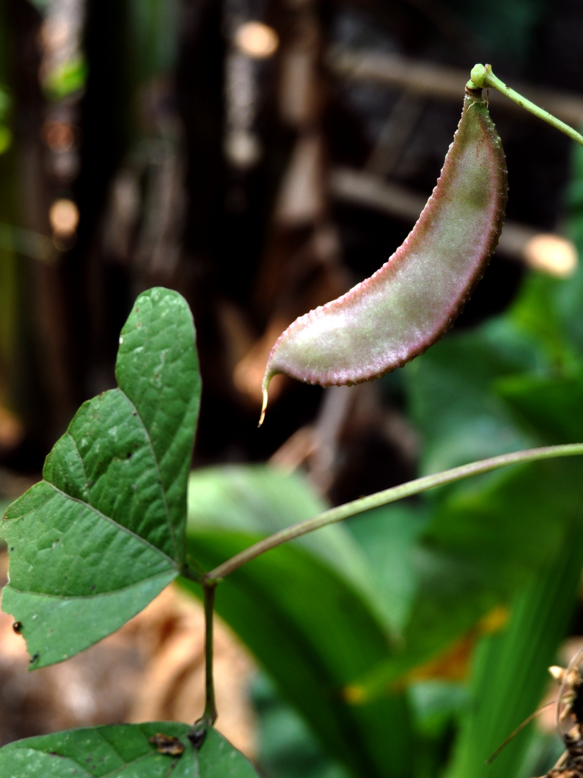 Hyacinth bean, Lablab purpureus from Darmaga, Bogor, West Java, Indonesia. Young pod.